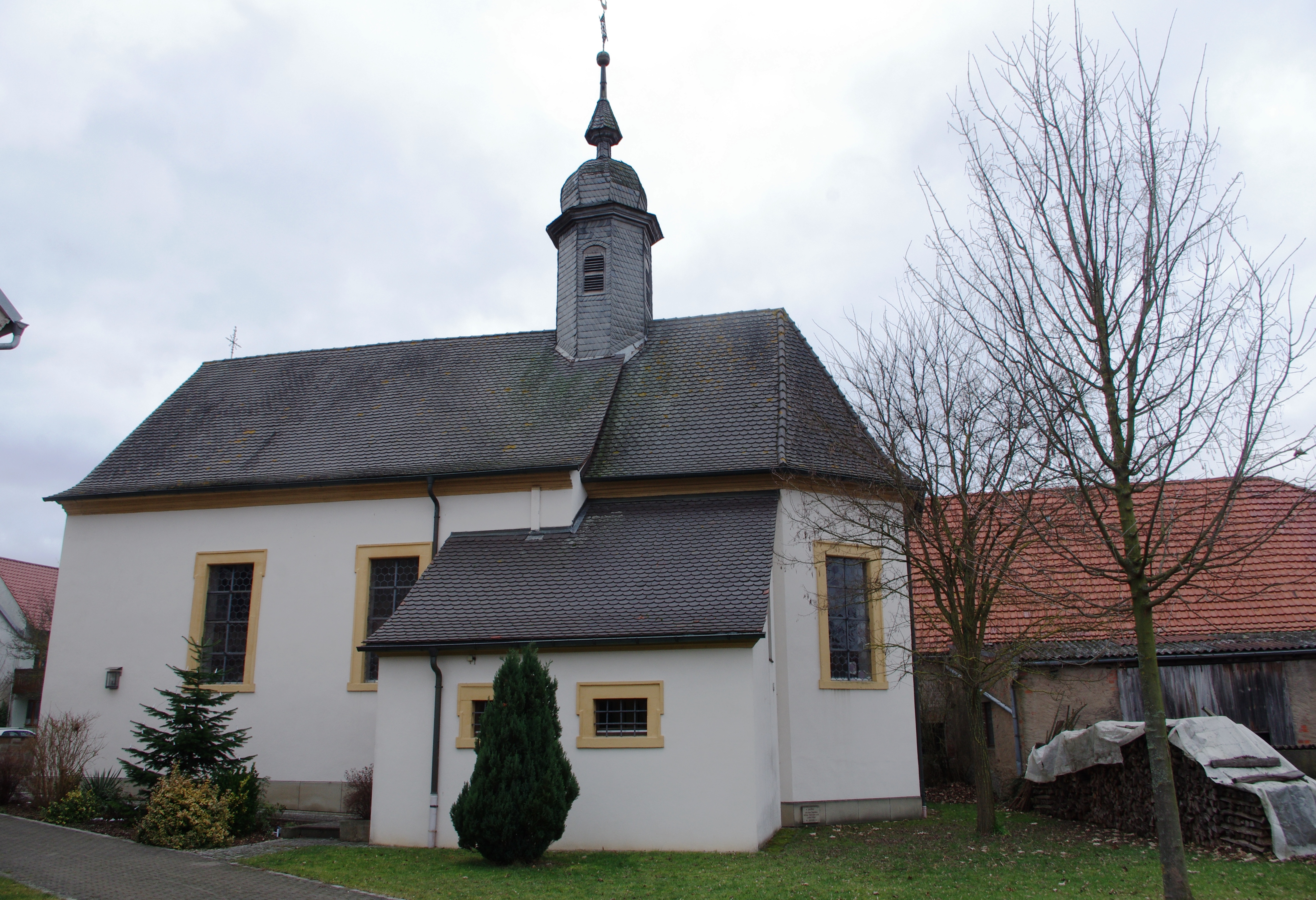 Object location49° 57′ 16.09″ N, 10° 23′ 15.04″ E